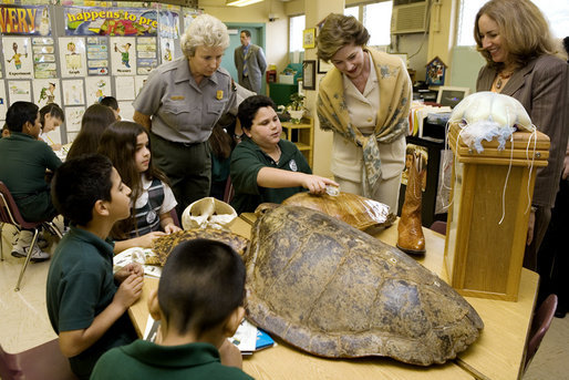 caption from original: Laura Bush, listens to a student talk about Sea Turtles, Thursday, Feb. 16, 2006, as Fran Mainella, Director of the National Park Service, and Stella Summers, Teacher of the Gifted Science class, look on during a visit to Banyan Elementary School in Miami, FL, to support education about parks and the environment.